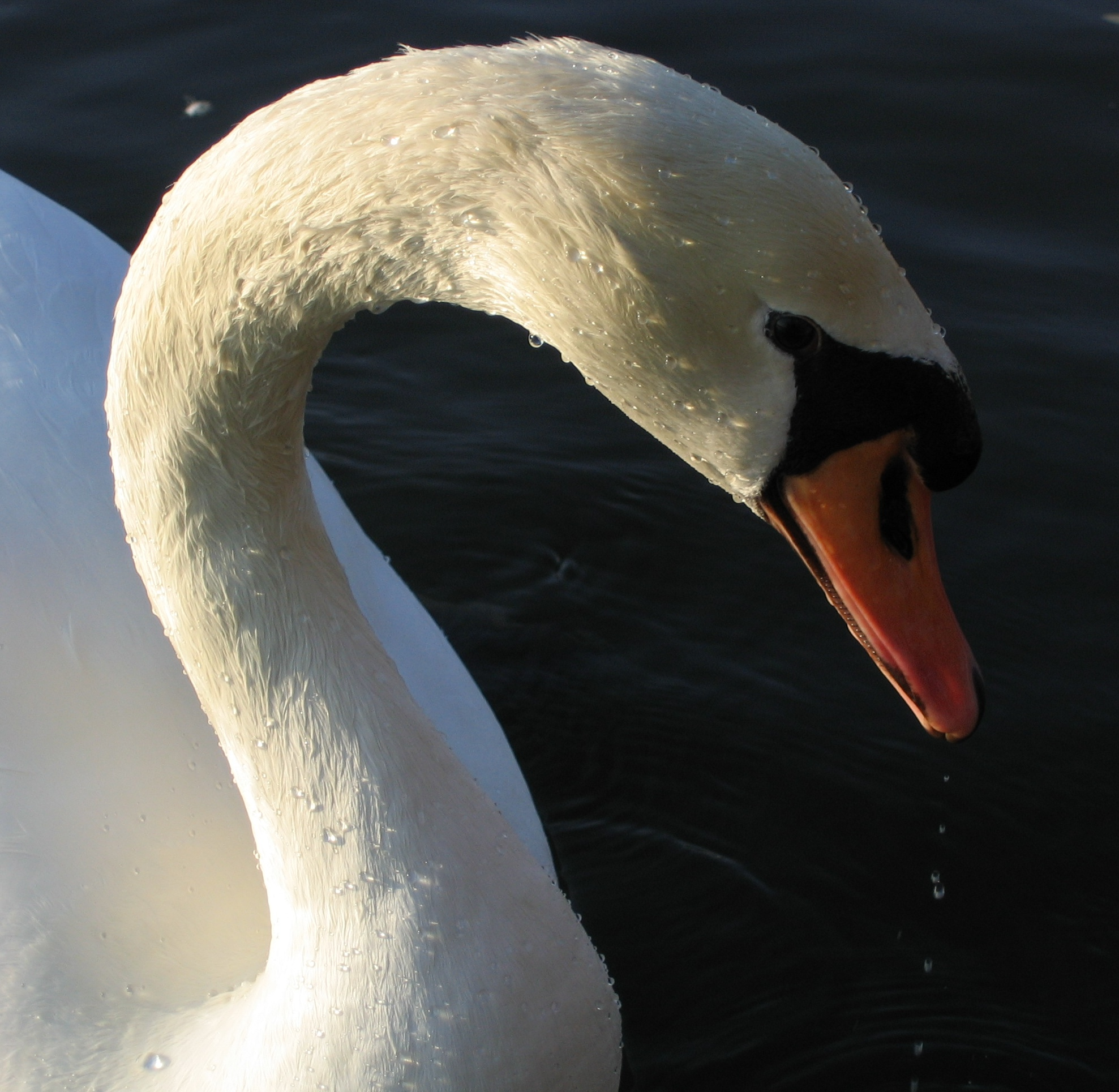 Swan Closeup 2005, picture by myself GFDL